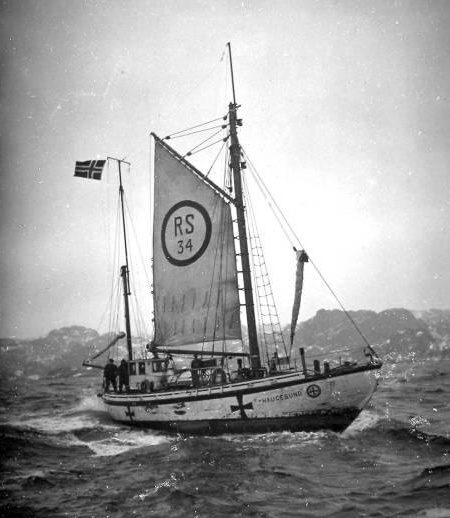 Norwegian rescue boat RS 34 Haugesund